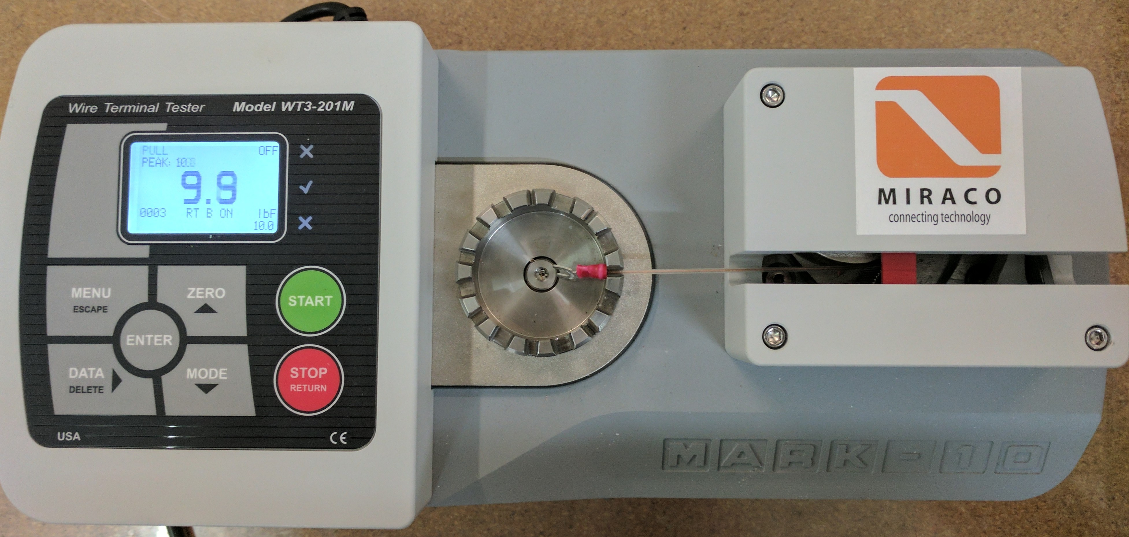 Pull Test being completed to comply with IPC/WHMA-A-620 Standard